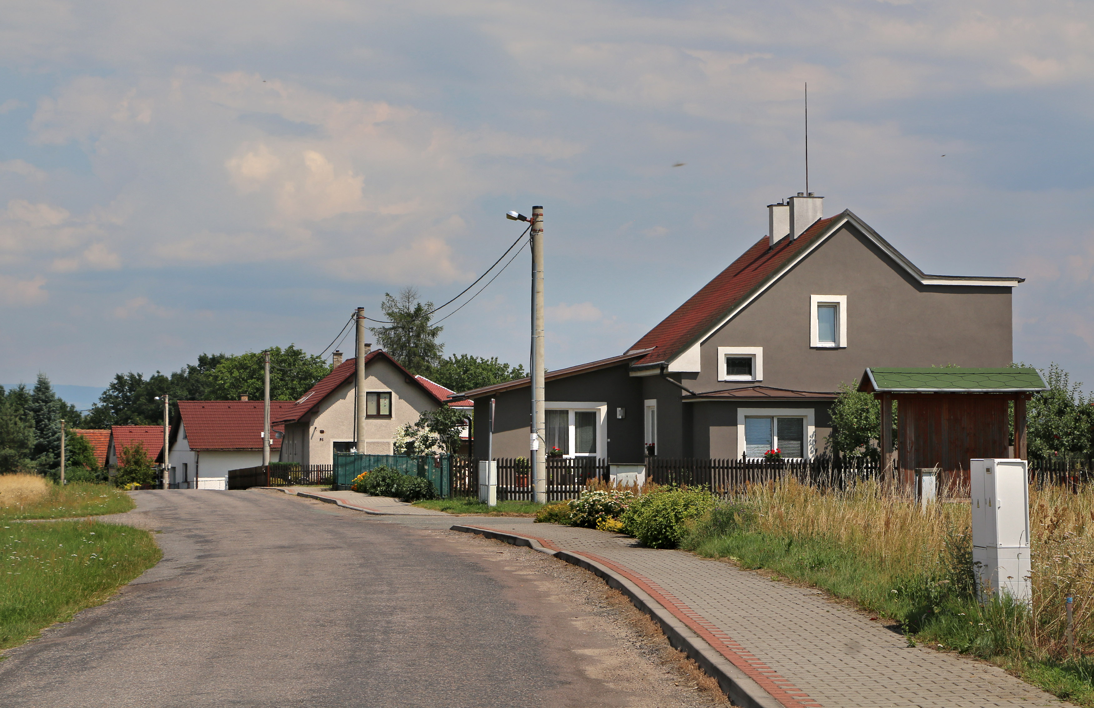 House No 45 in Nová Ves, Czech Republic.